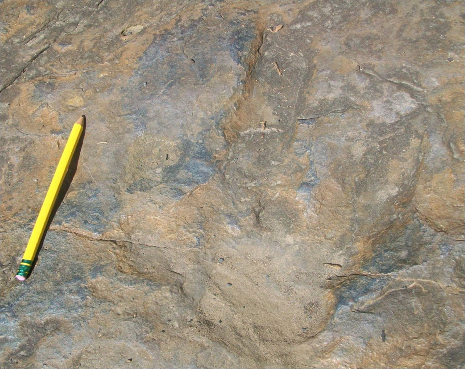 A footprint of the ichnogenus Eubrontes at the Dinosaur Footprints wilderness reservation in Holyoke, Massachusetts. Pencil for scale.